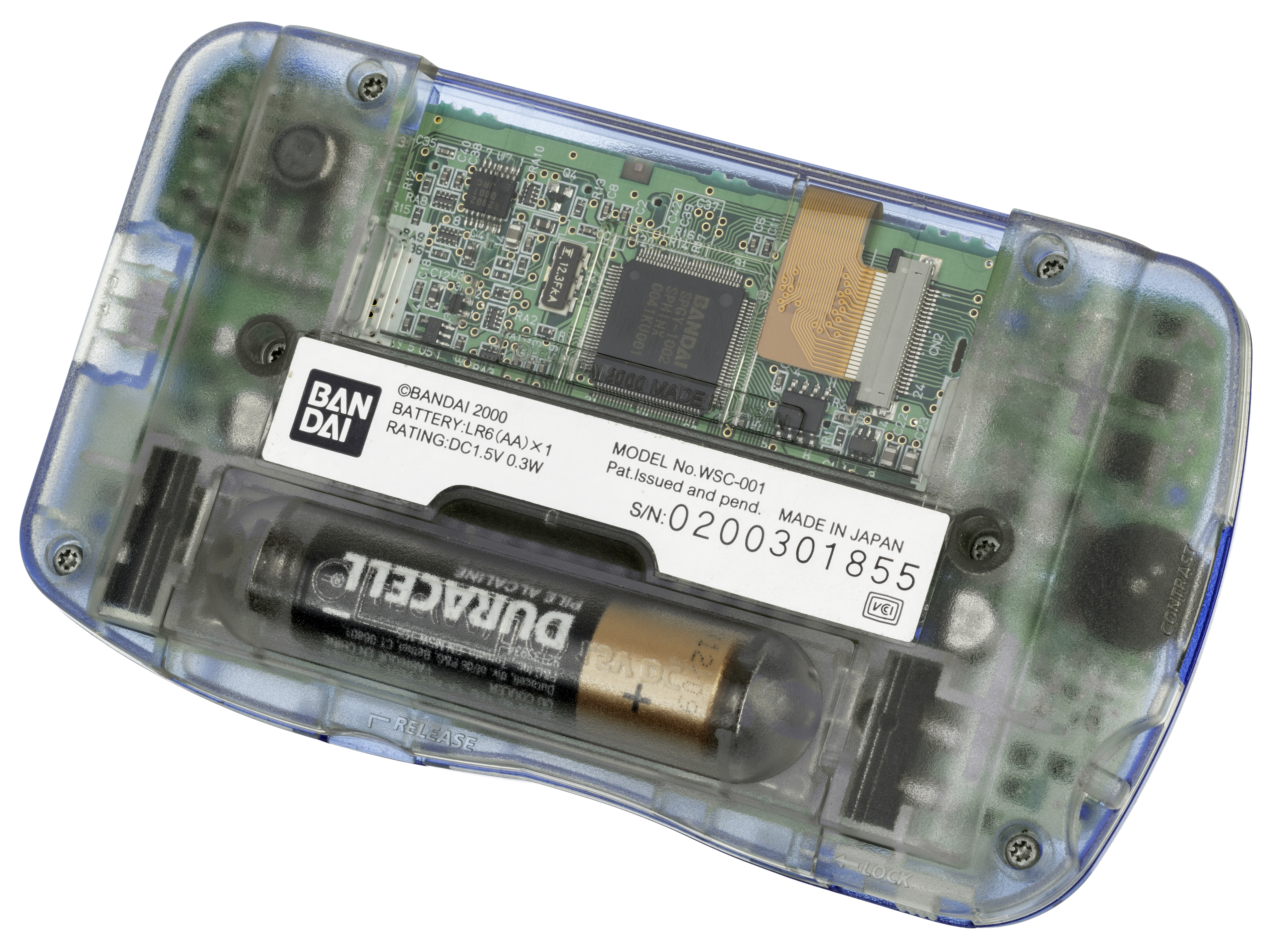 The back of a WonderSwan Color handheld gaming console. The console uses a single AA battery for power and is quoted at 20 hours of battery life.